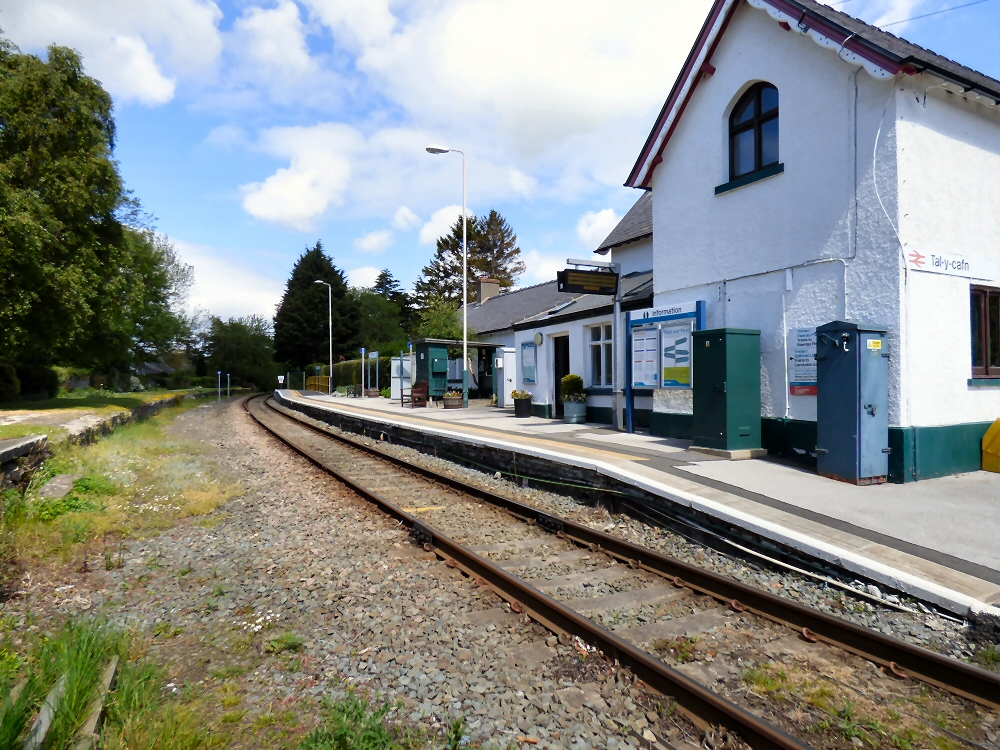 Tal-y-Cafn station